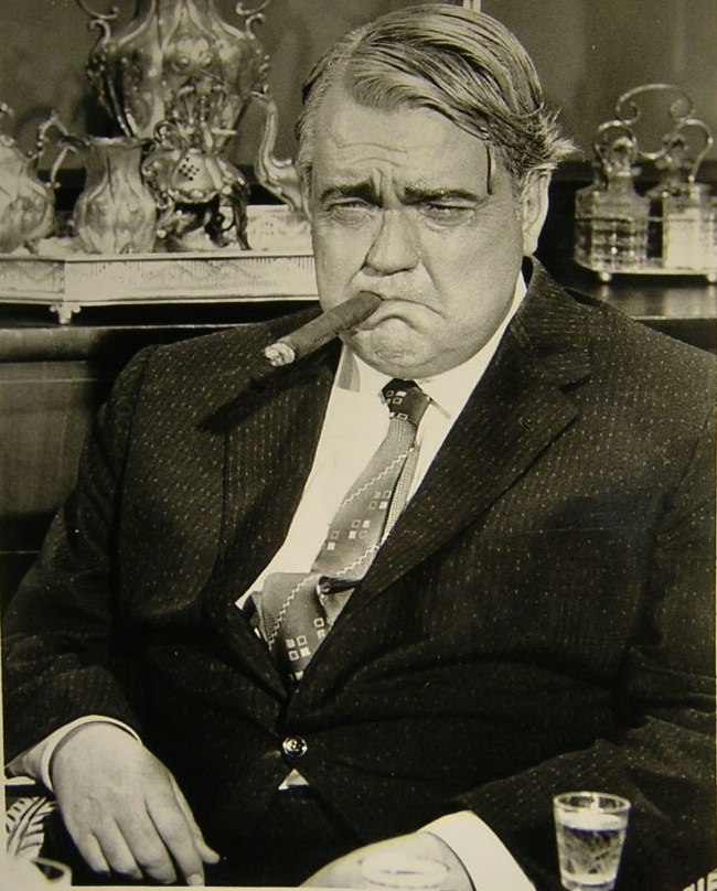 Publicity portrait of Orson Welles for The Long, Hot Summer.